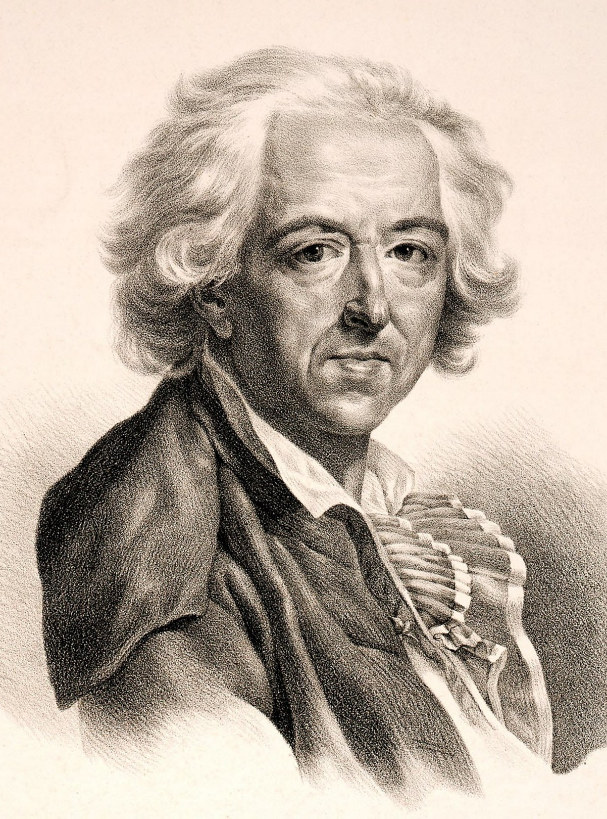 French playwright Charles-Simon Favart (1710-1792) by Paul Jourdy (1805-1856) after Mme Favart.